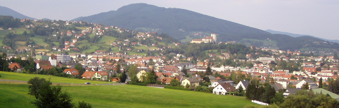 Weiz, Styria, Austria.